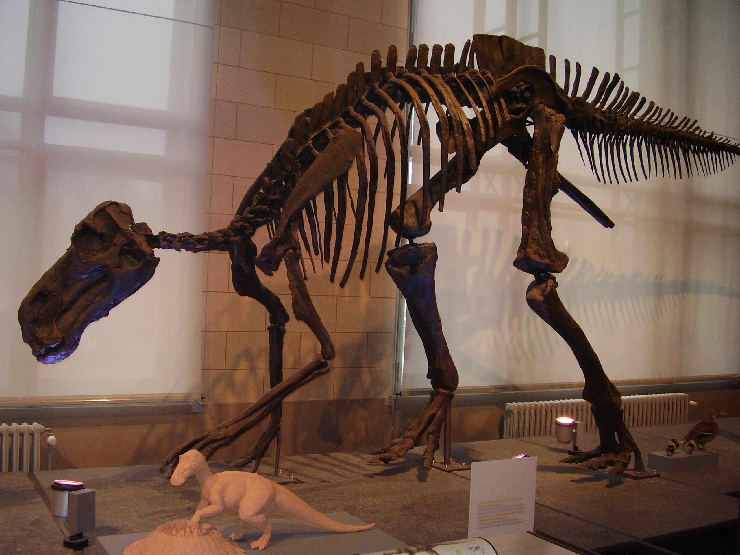 Maiasaura peeblesorum skeletal mount, Brussels Natural History museum (2009).